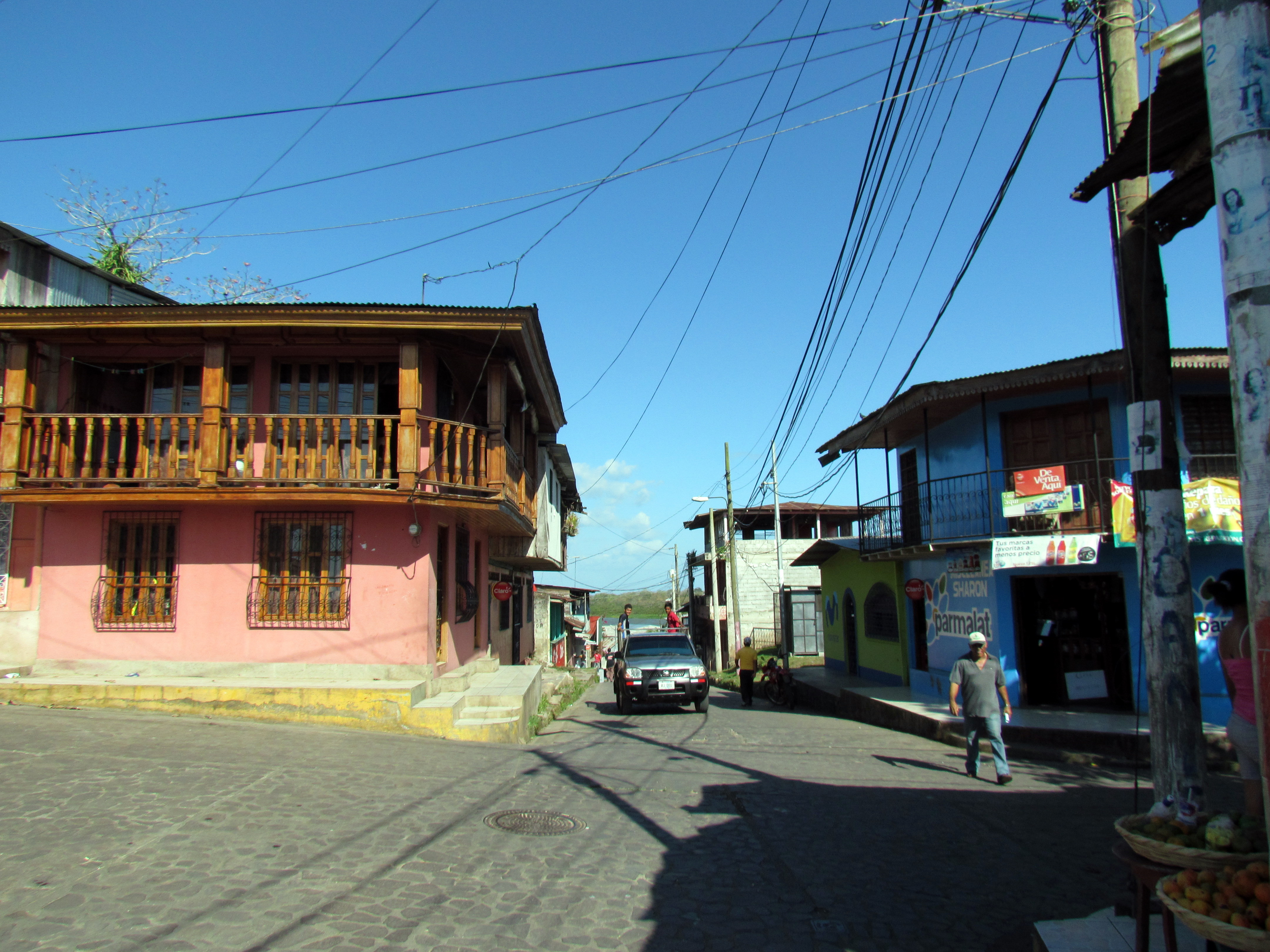 San Carlos, Nicaragua